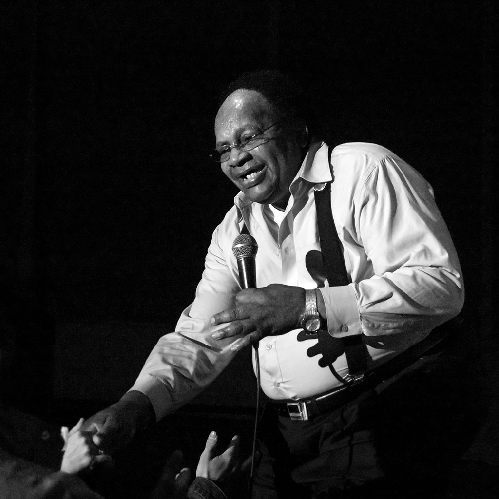 Howard Tate Oraison France - 2008 - Nikon D70